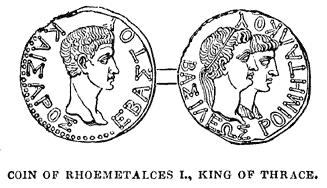 Coin of Rhoemetalces I, Thracian King. Originally from: Smith, William, ed. Dictionary of Greek and Roman Biography and Mythology. Boston : Little, Brown, and Company, 1867, v. 3, p. 653